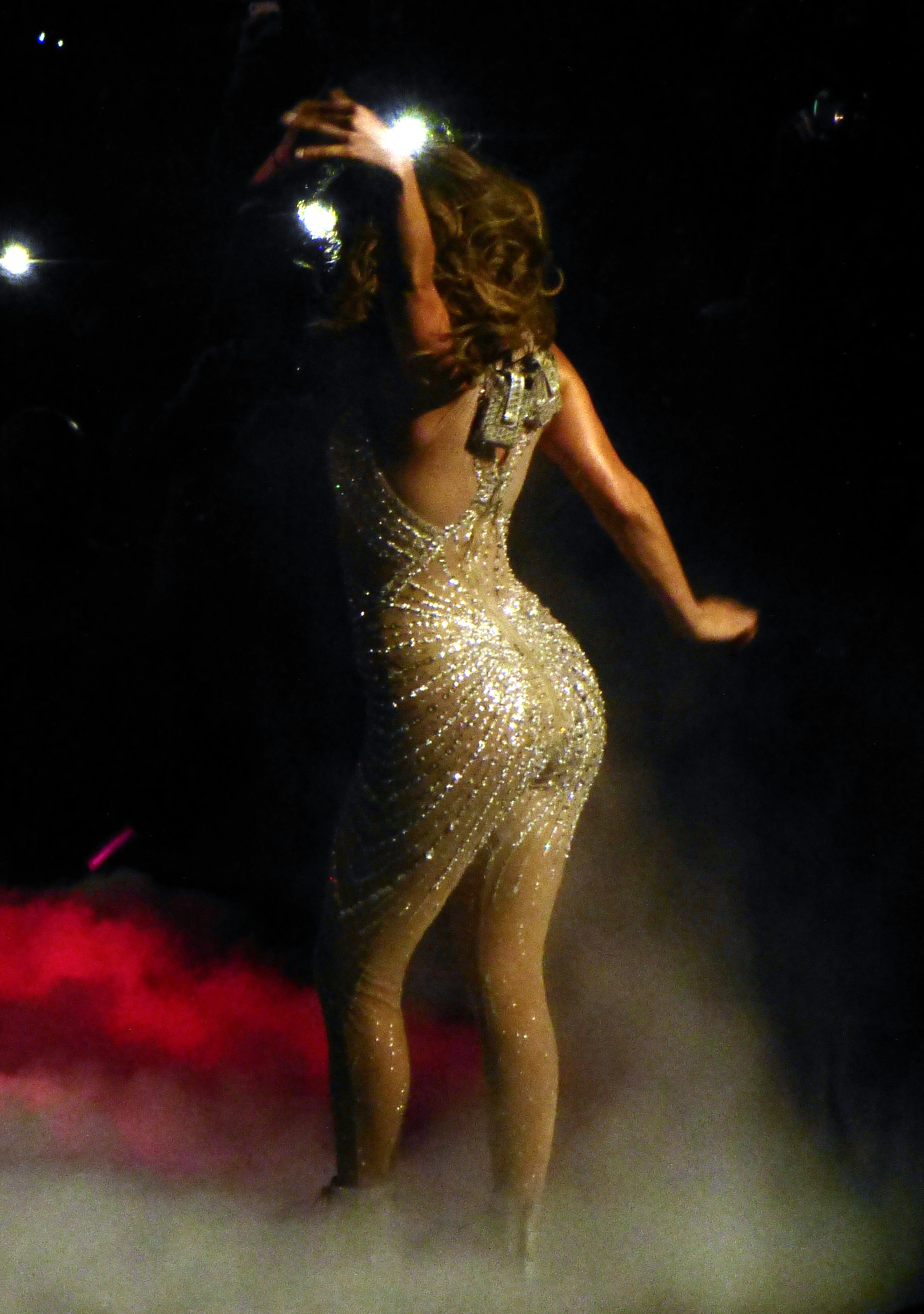 Jennifer Lopez in concert at Paris Bercy in the "Dance Again World Tour" in October 2012.